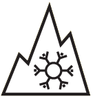 Severe snow rating symbol for car tires